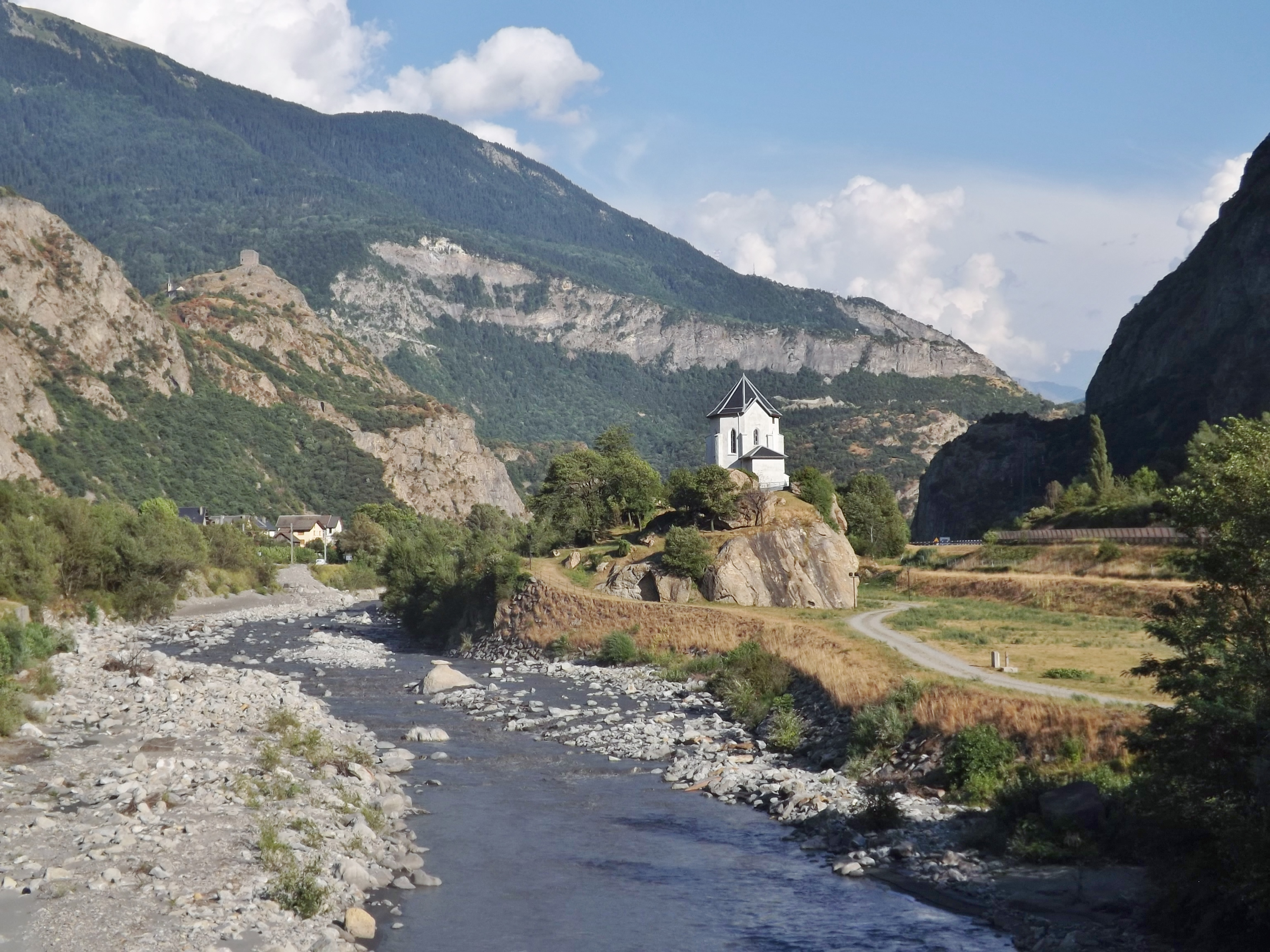 Sight of the Arc river and the chapelle de l'Immaculée Conception chapel, in Pontamafrey, Maurienne valley, Savoie, France.